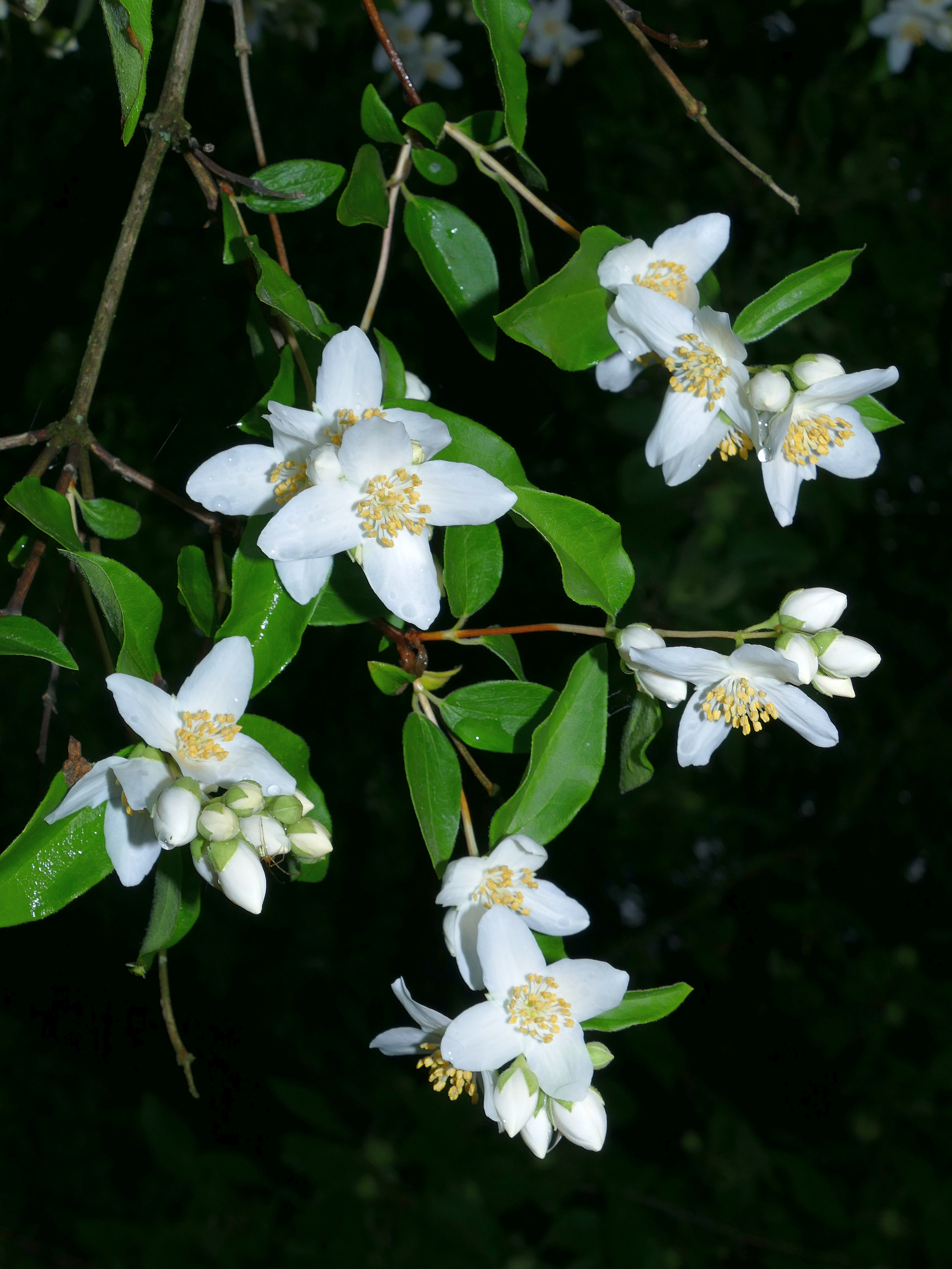 Philadelphus coronarius L. Flowers of sweet mock orange, cultivated as a garden plant in the Moscow region (Russia)